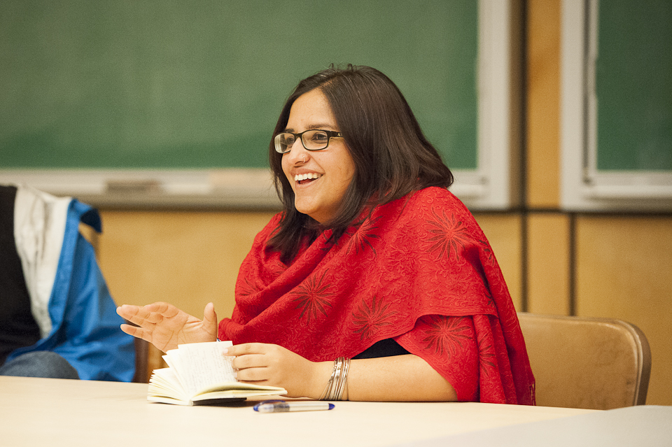 Saturday October 5, 2013. Victoria, Coast Salish Territories. Harsha Walia, Climate Justice- A Movement of Movements